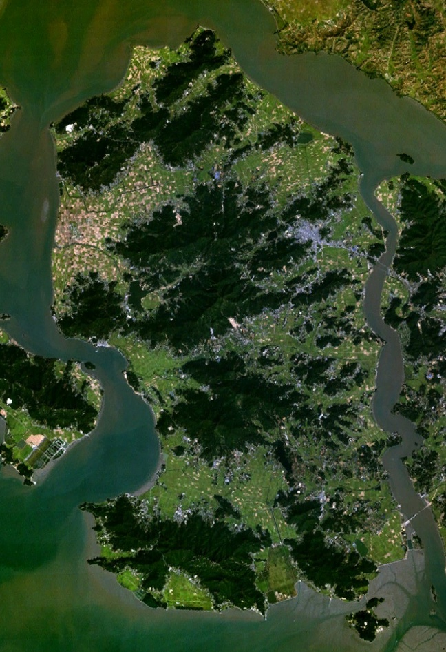 a screenshot from NASA’s globe software World Wind